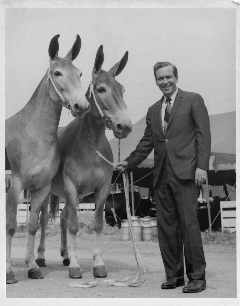 Collection Name: Department of Agriculture, Missouri State Fair Collection Photographer/Studio: Unknown Description: Attending Governor's Day at the 1969 Missouri State Fair, Governor Warren E. Hearnes took time to inspect the champion pair of mules. Coverage: United States – Missouri – Pettis – Sedalia Date: 1969 Rights: Copyright is in the public domain. Credit: Courtesy of Missouri State Archives Image Number: Box 20 Institution: Missouri State Archives